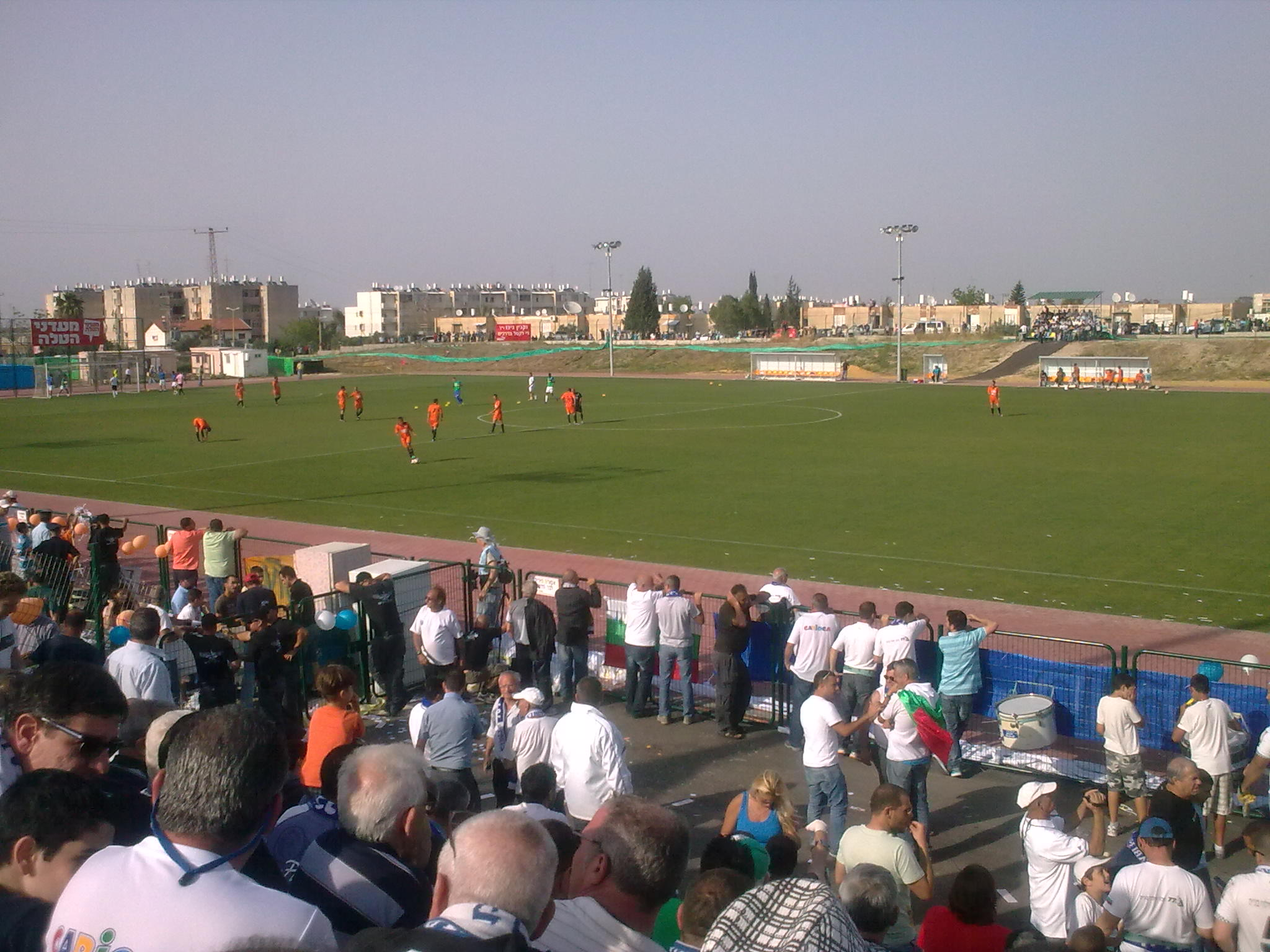 Category:Kiryat Malakhi Municipal Stadium